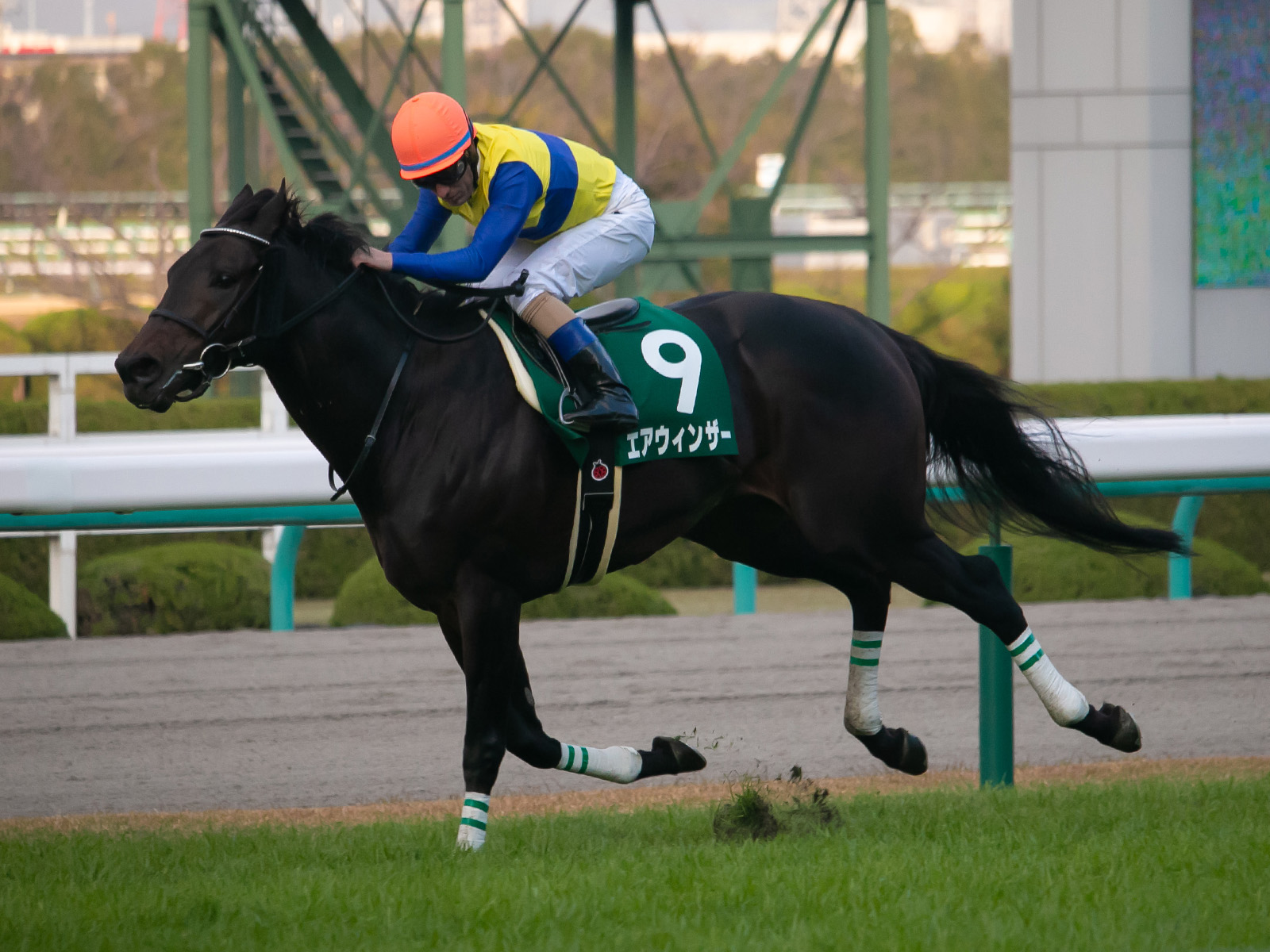 Air Windsor(JPN), Racehorse of Japan.